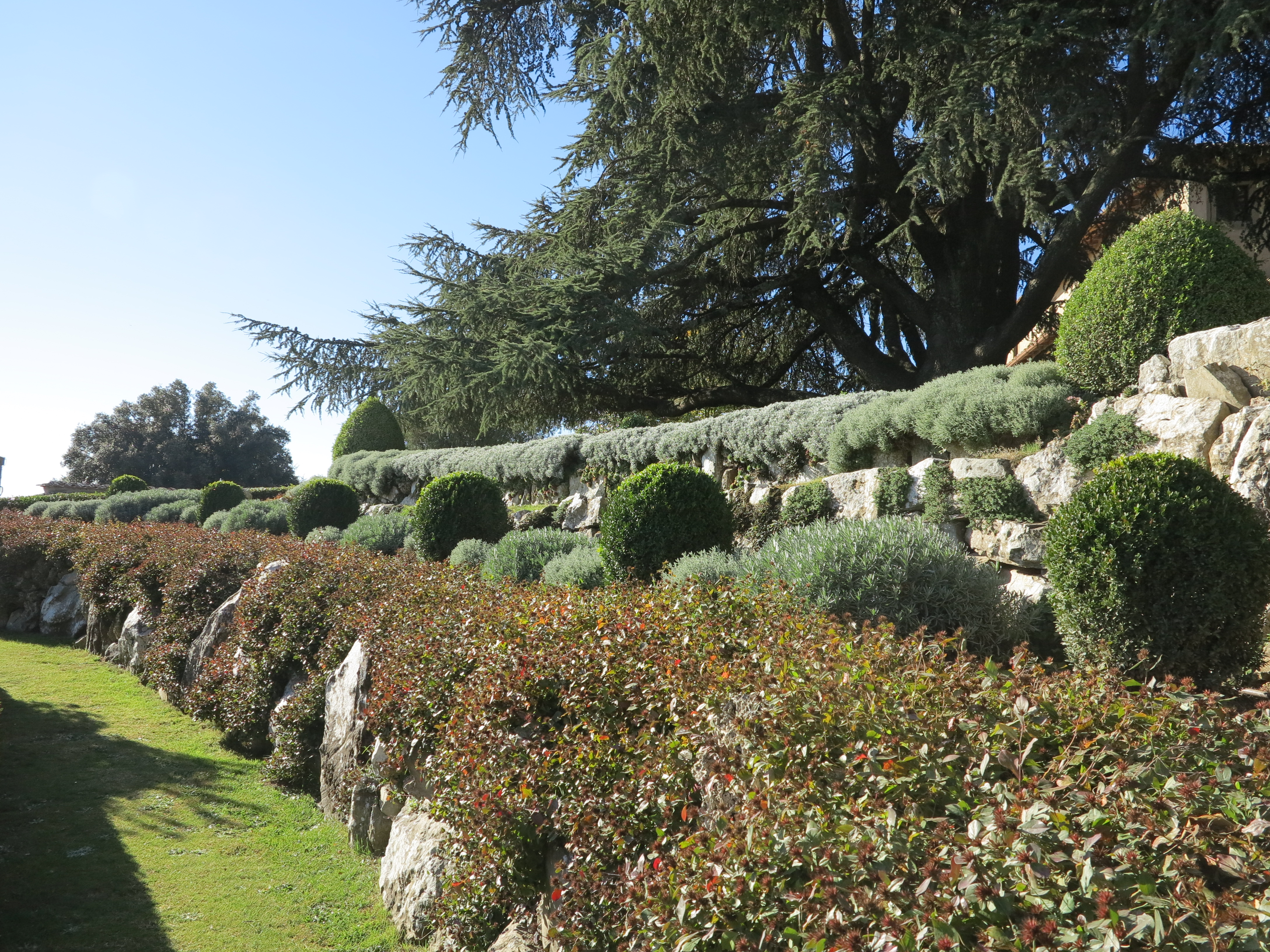 Montozzi castle, the garden